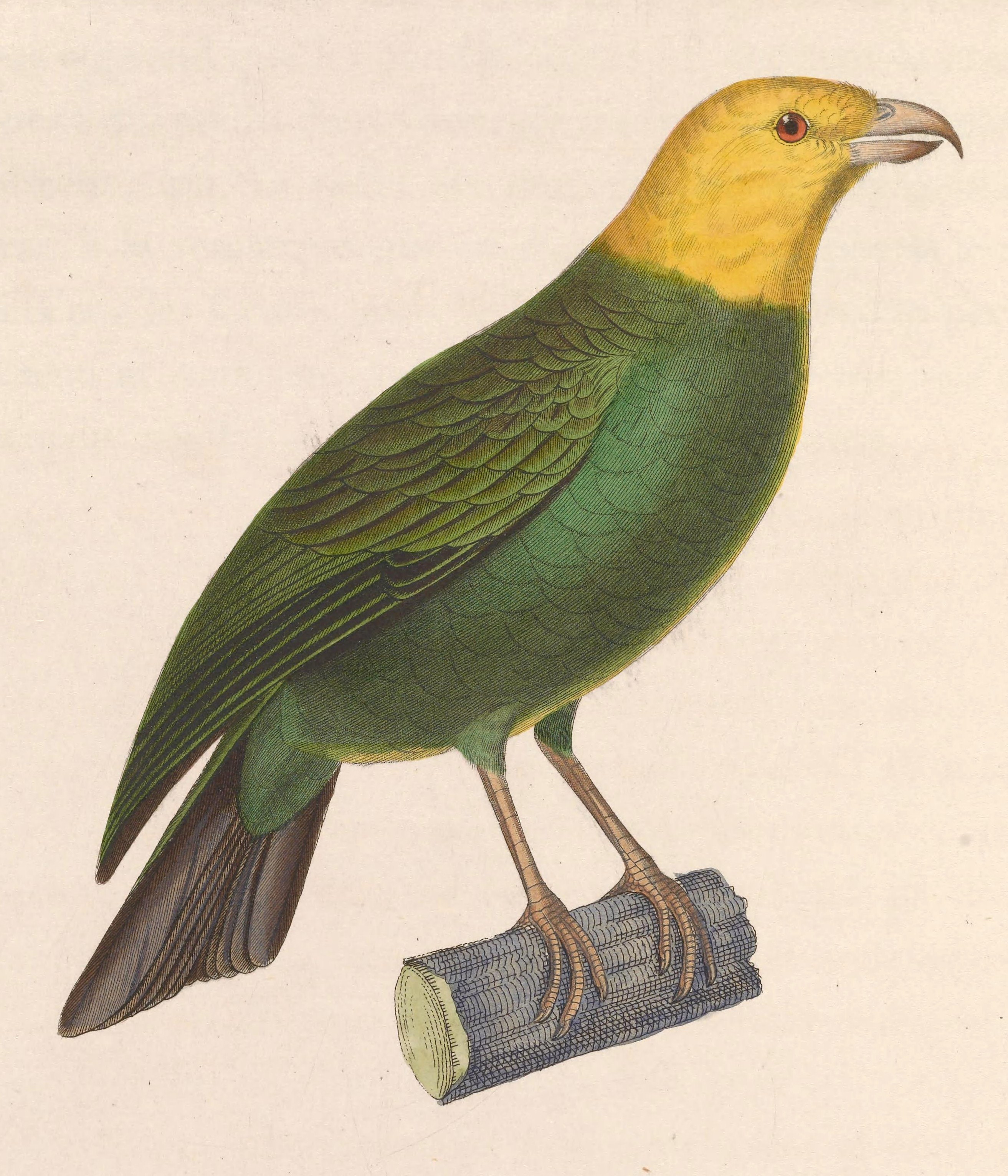 « Psittacirostra icterocephala » = Psittirostra psittacea (ʻŌʻū) - male